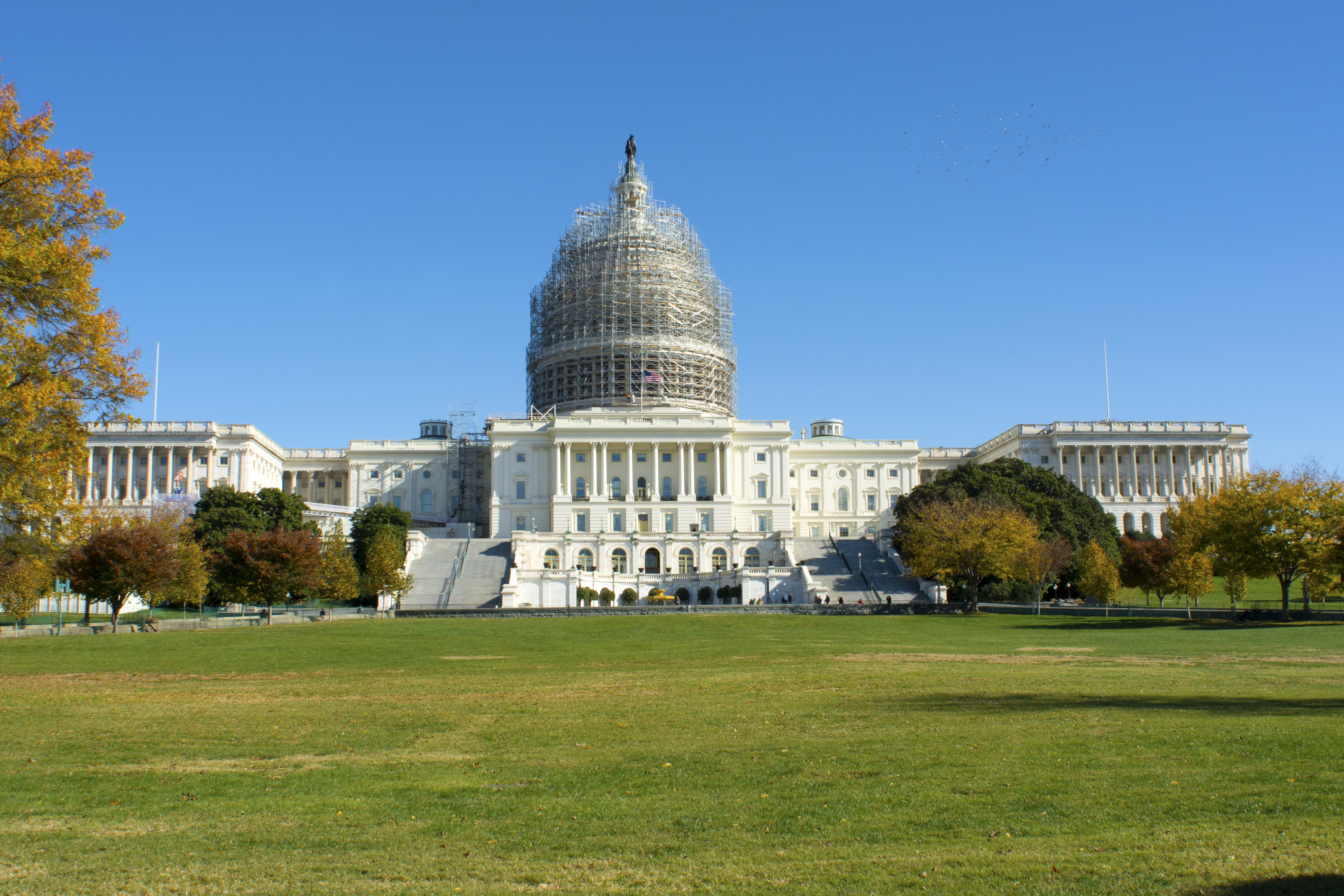 United States Capitol building under renovation November 2014 photo D Ramey Logan